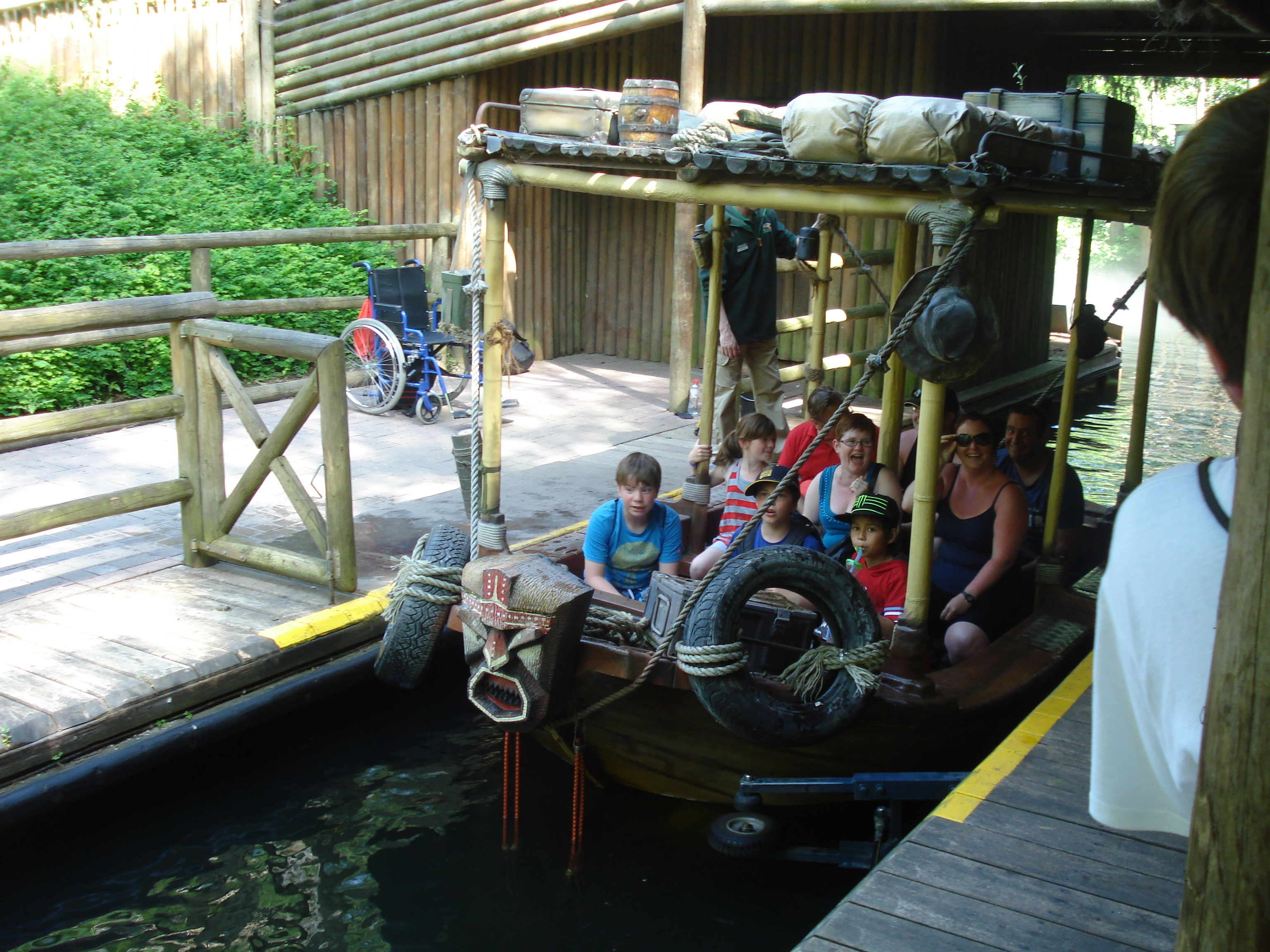 Jungle Mission